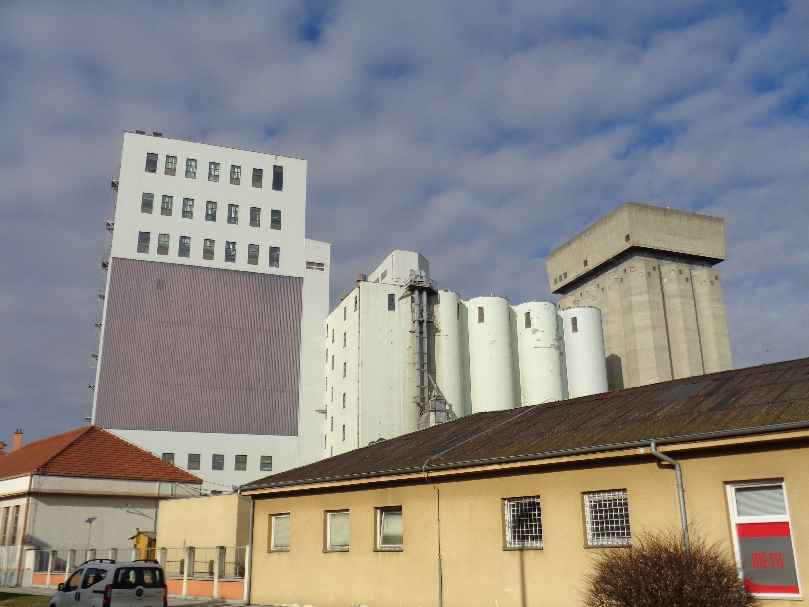 Cereals storage silos in Čakovec, Croatia - southeast view